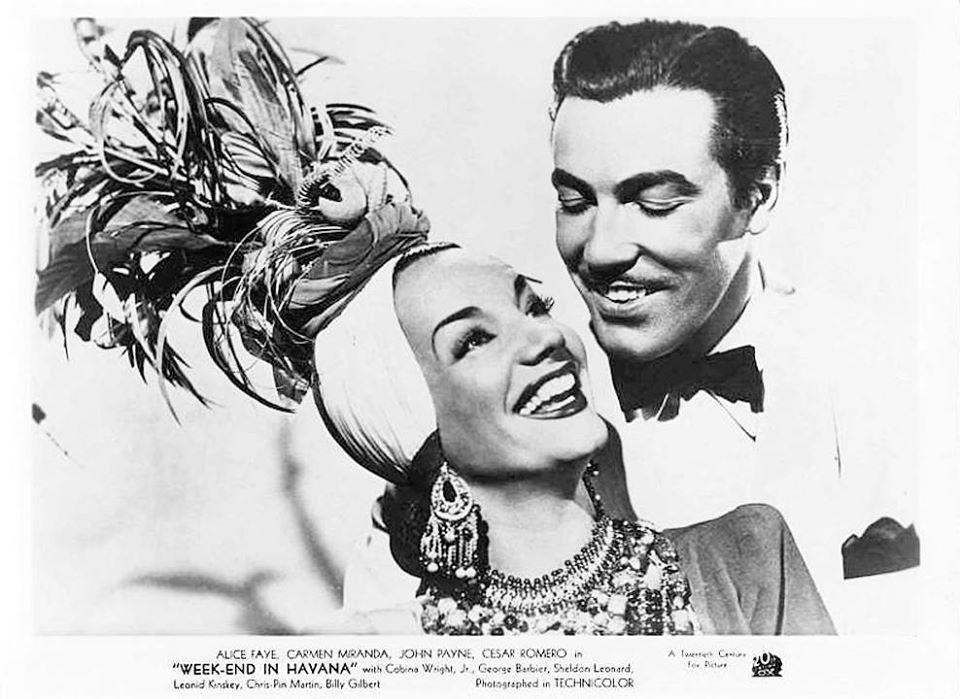 Publicity photo of Carmen Miranda and César Romero for the film Week-End in Havana (1941).